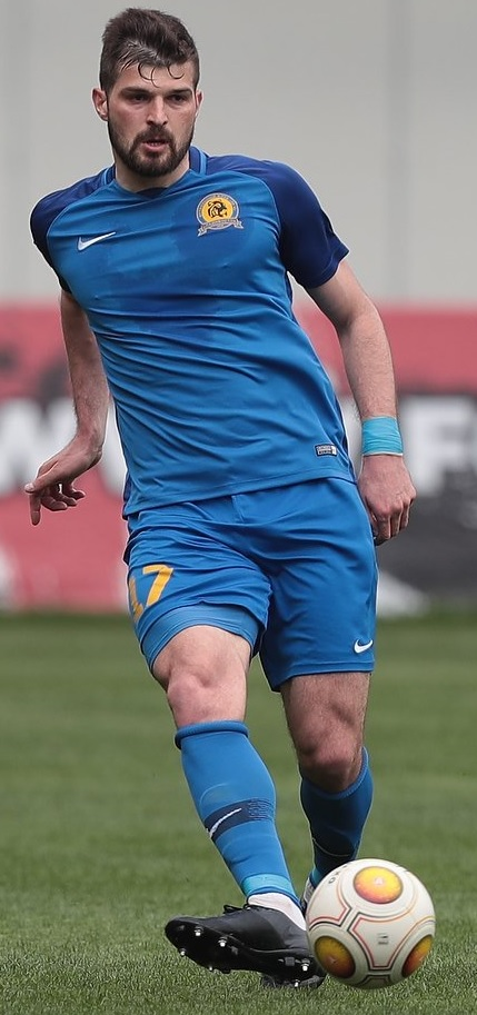 David Dzakhov with FC Luch Vladivostok in a game against FC Khimki.